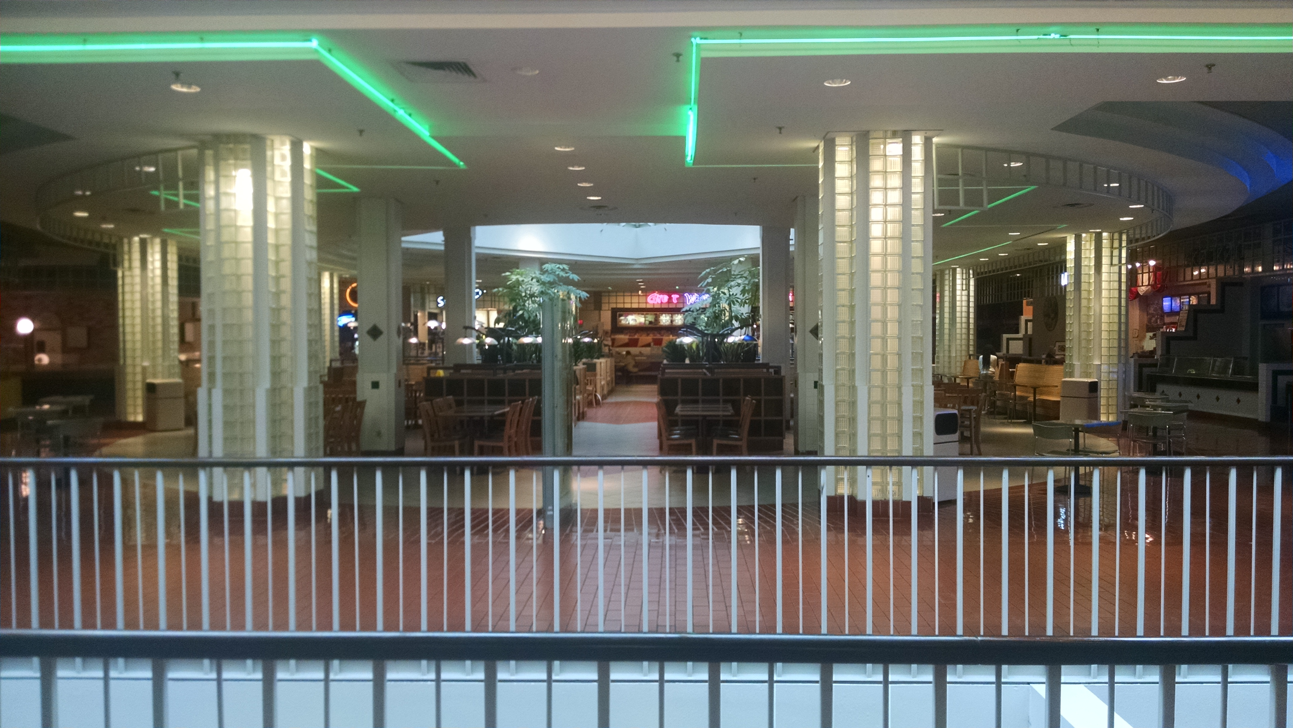 the former food court at Highland Mall